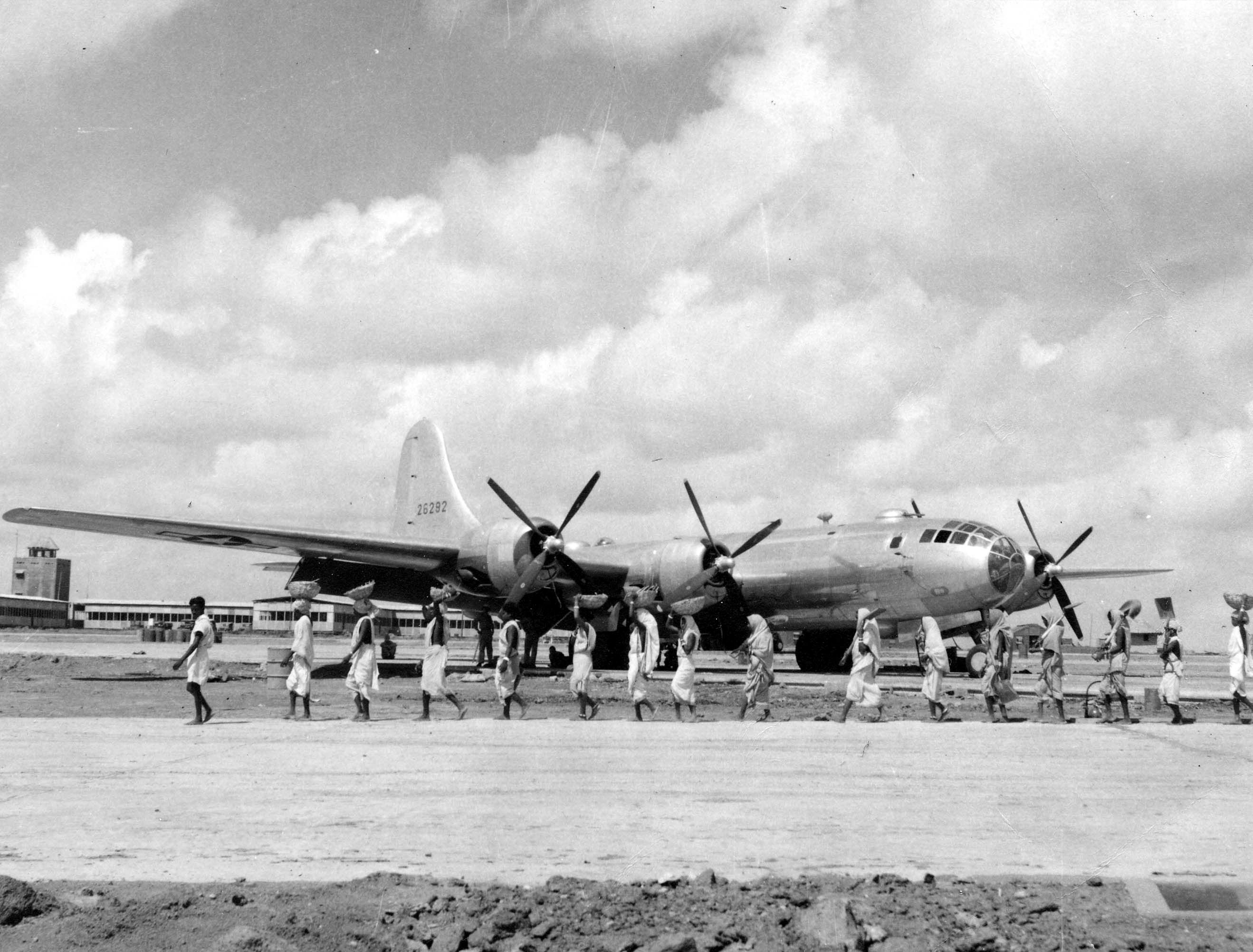 B-29 "Black Jack" "Black Jack" B-29 Superfortress 678th Bomb Squadron, 444th Bomb Group, 58th Bomb Wing, 20th Air Force. Lost on May 19,1944 Charra Airfield, India. (U.S. Air Force photo)